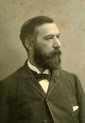 Needham Bryant Broughton circa. 1880-1900